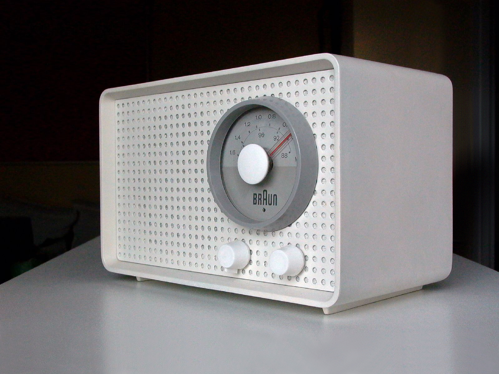 Braun SK 2 Radio (1960). Externally it's the same as the original Braun Kleinsuper of 1955 [1], and inside they all use a basic five-tube superheterodyne circuit witn an EL84 output tube [2].